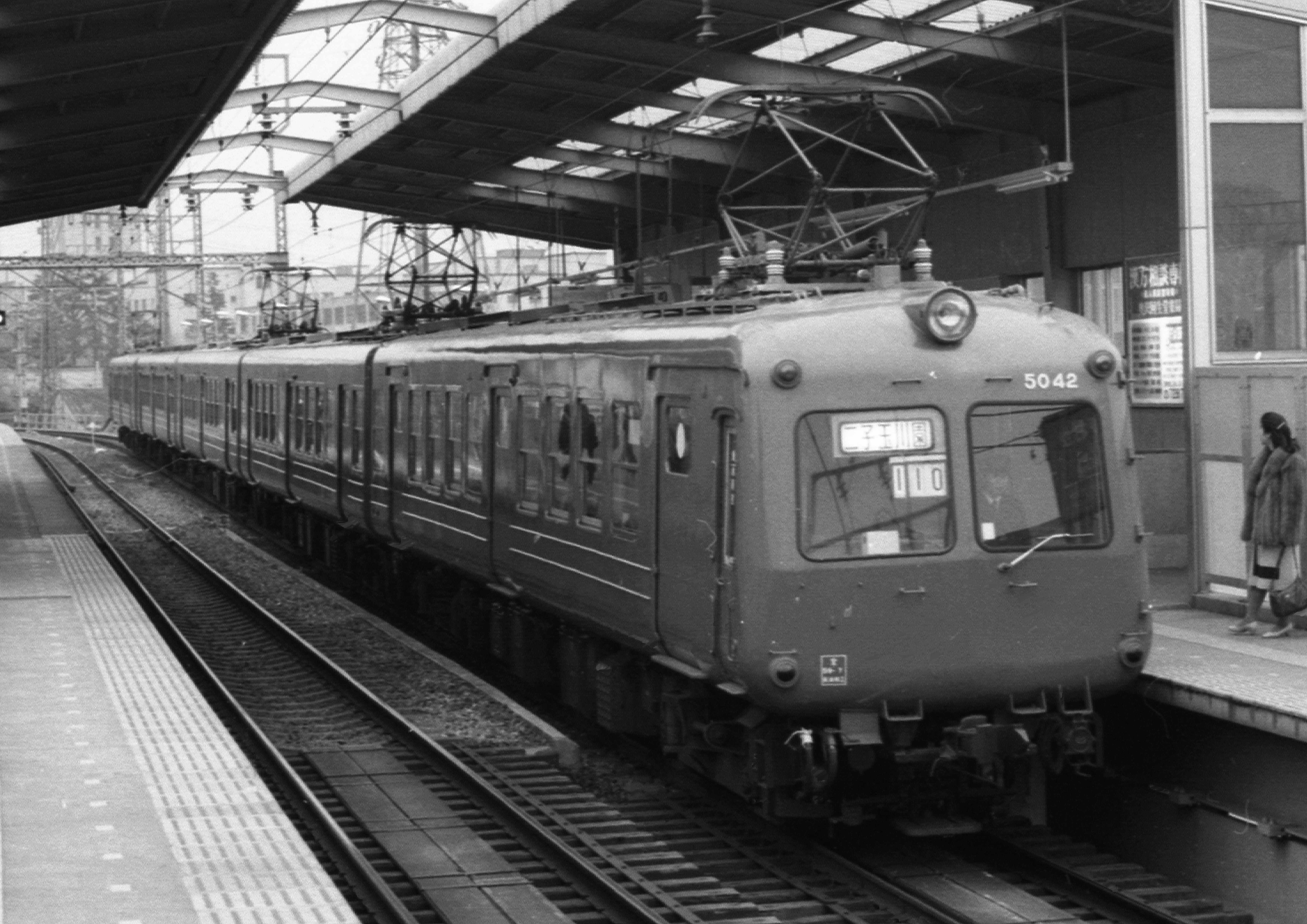 A Tokyu 5000 series EMU arriving at Midorigaoka Station